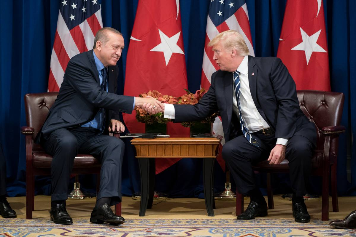 President Donald J. Trump and President Recep Tayyip Erdoğan of Turkey at the United Nations General Assembly (Official White House Photo by Shealah Craighead)